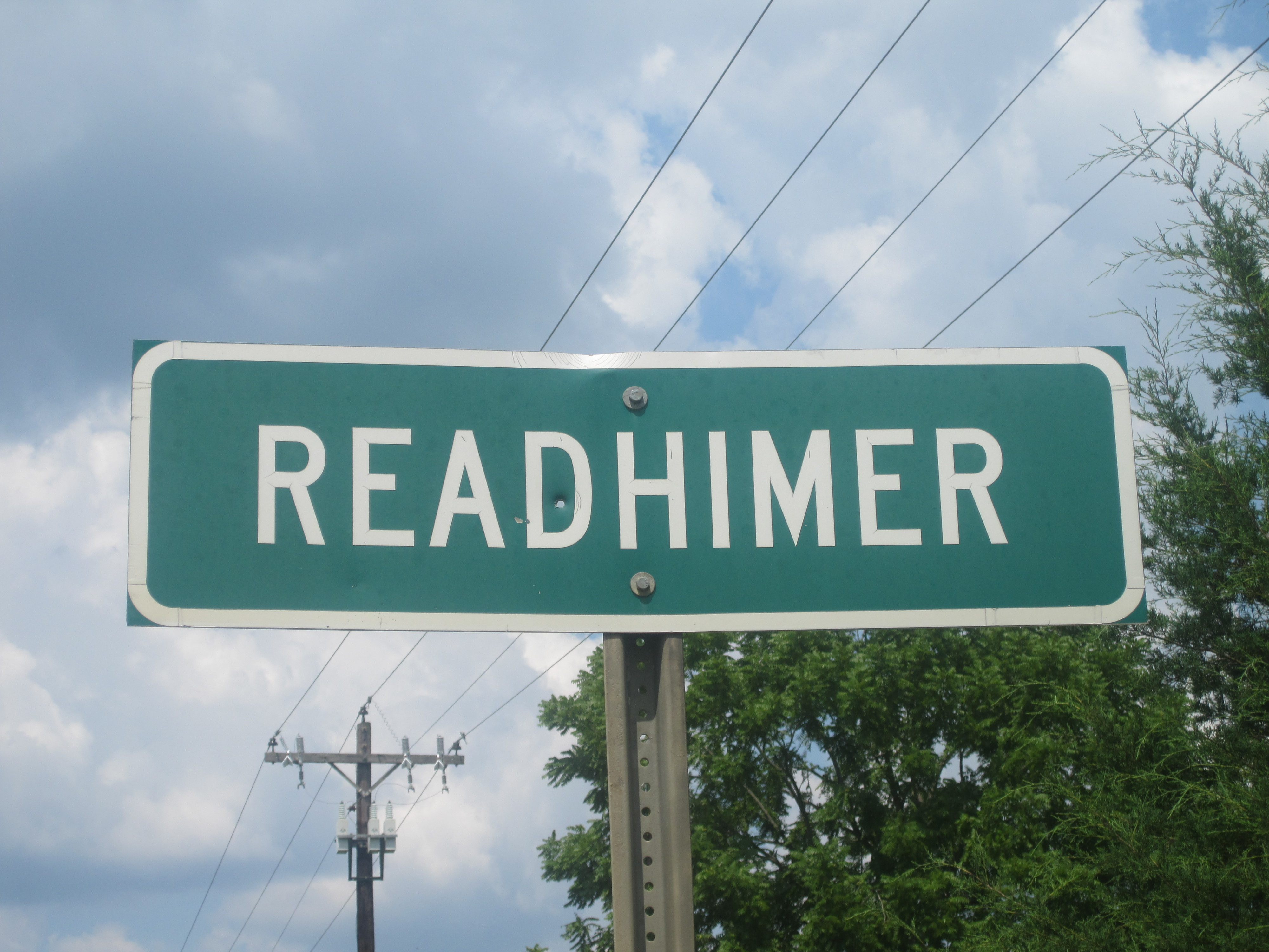 Readmimer, LA sign